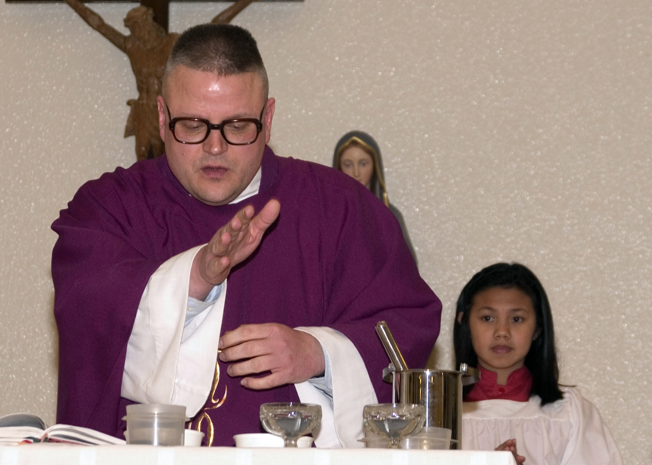 Yokosuka, Japan (March 01, 2006) - USS Kitty Hawk (CV 63), Chapalin, Lt. Matthias Rendon blesses ashes, during an Ash Wednesday service held on board Commander Fleet Activities Yokosuka. U.S. Navy photo by Photographer's Mate 1st Class Crystal Brooks (RELEASED)